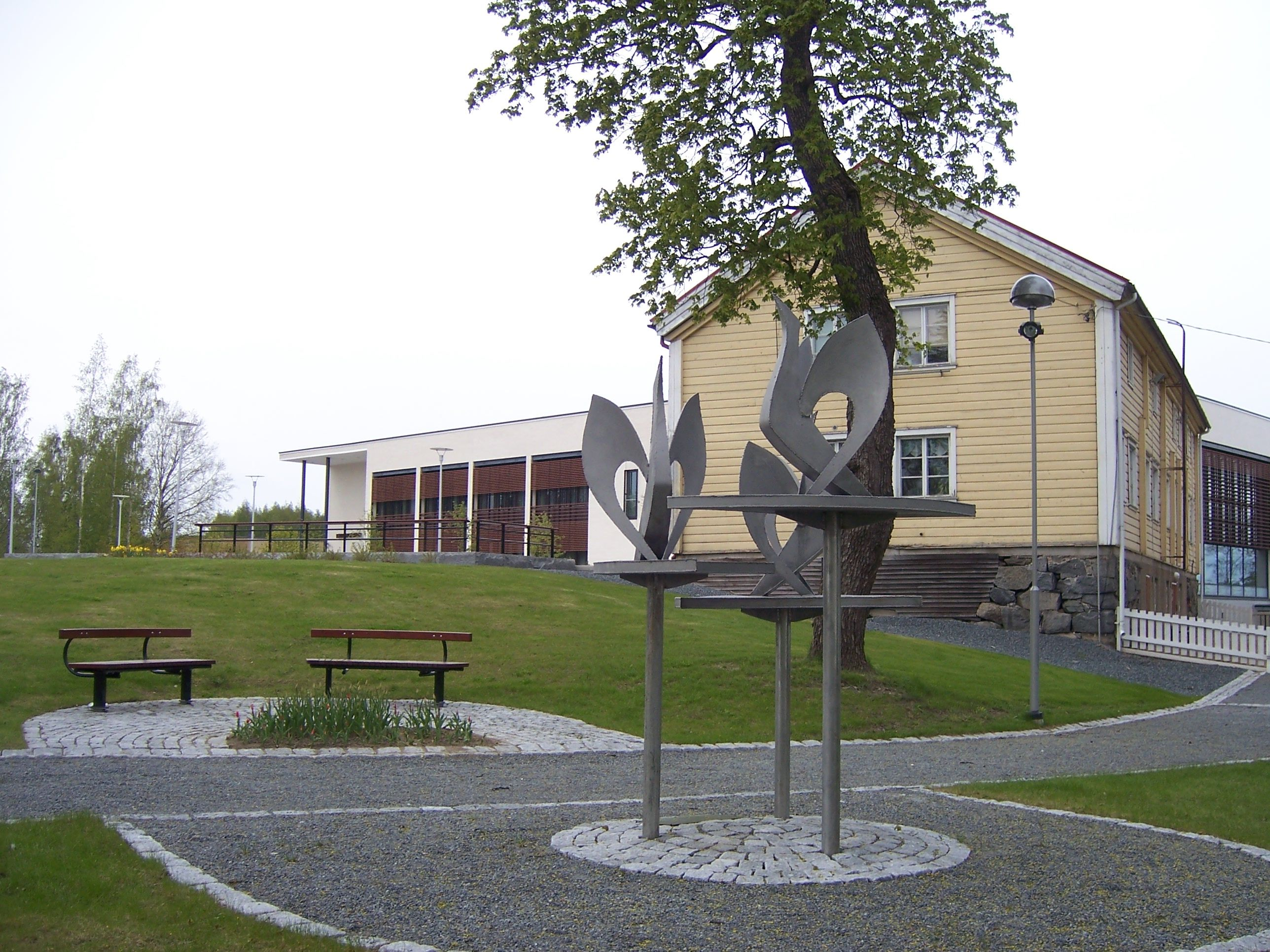 City Hall of Ylöjärvi, Finland